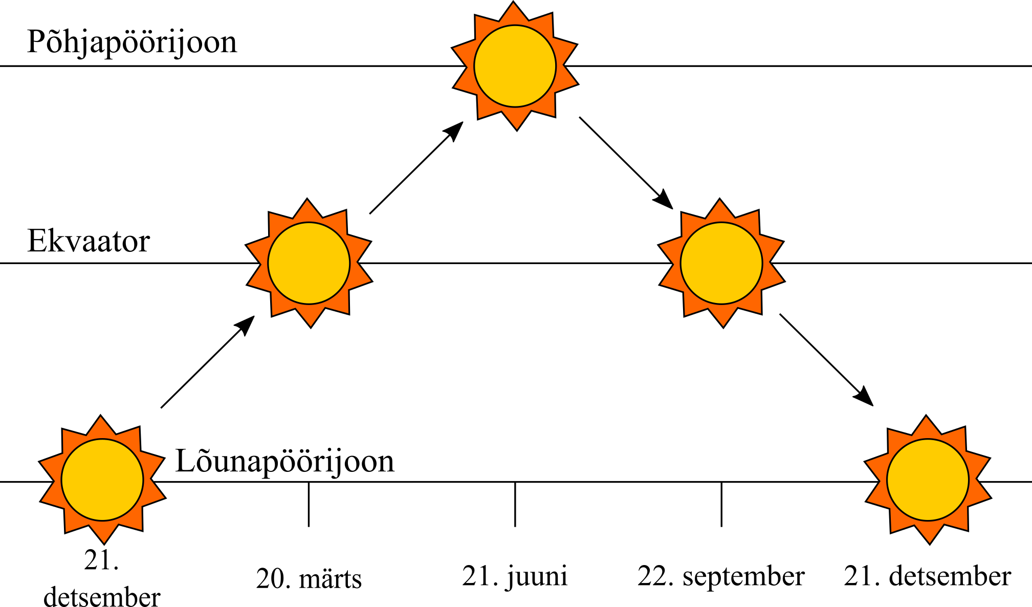 An illustration of equinoxes and solstices on the data of years 2013 and 2014. From left to right the full dates are: 21.12.2013, 20.03.2014, 21.06.2014, 22.09.2014, 21.12.2014.